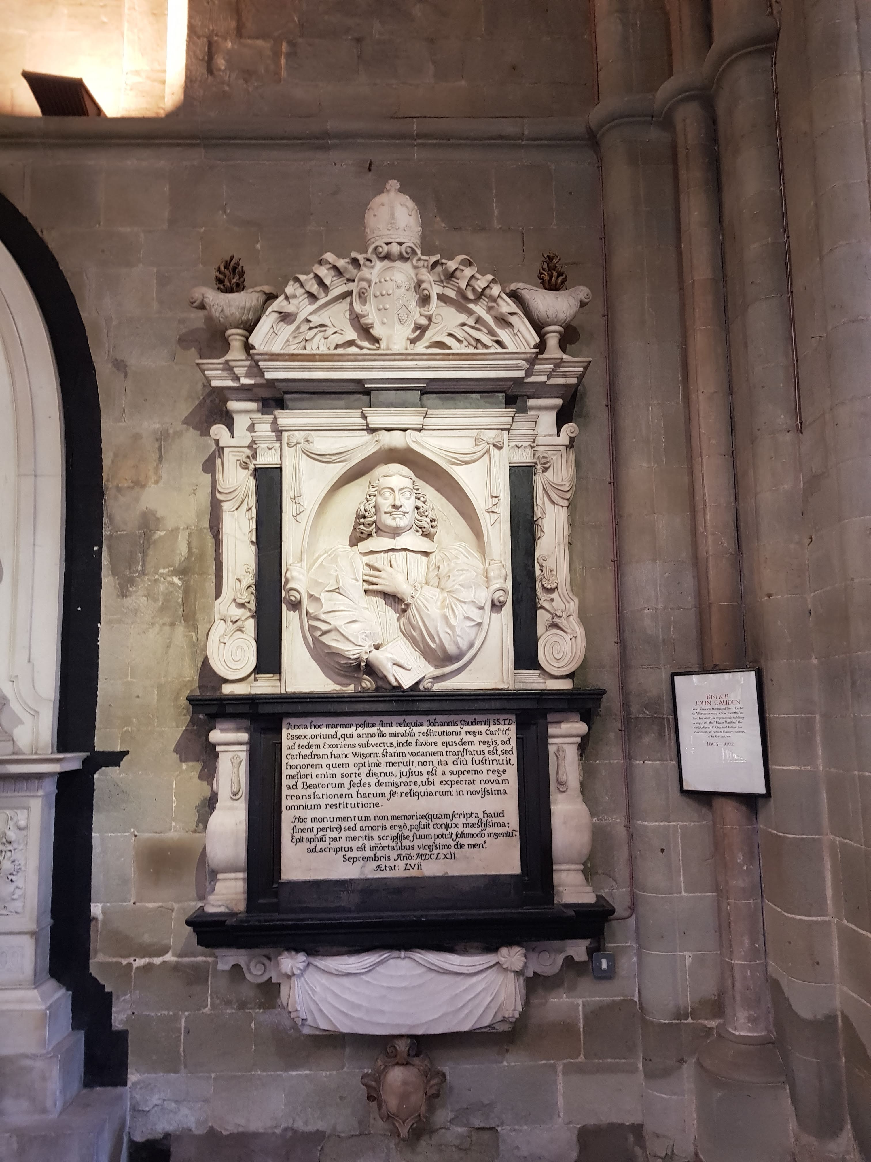 Worcester Cathedral, 11 Feb 2019. John Gauden (1605 – 23 May 1662) Bishop of Exeter then Bishop of Worcester. He was also a writer, and the reputed author of the important Royalist work Eikon Basilike.